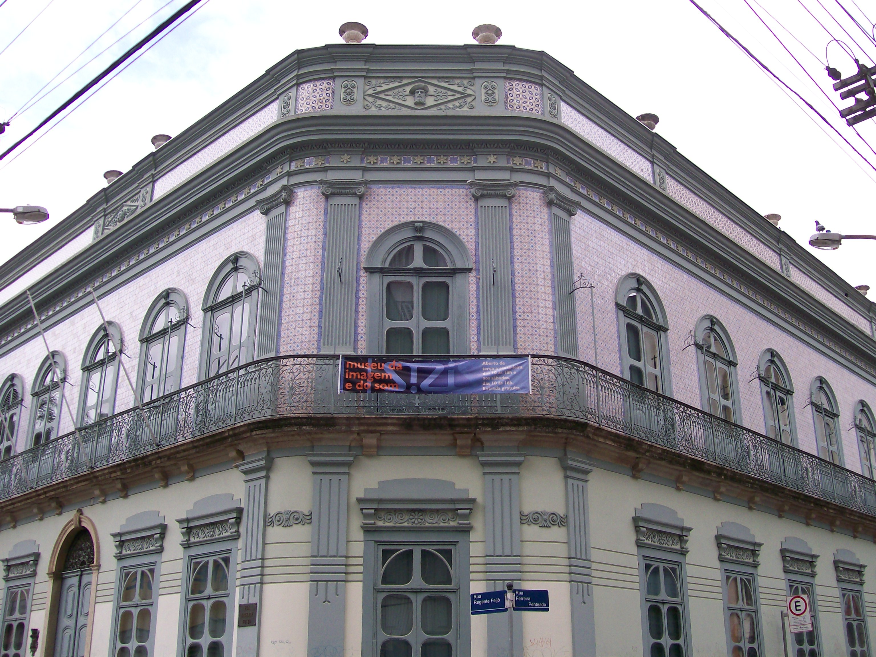 Azulejos Palace in Campinas, Brazil.